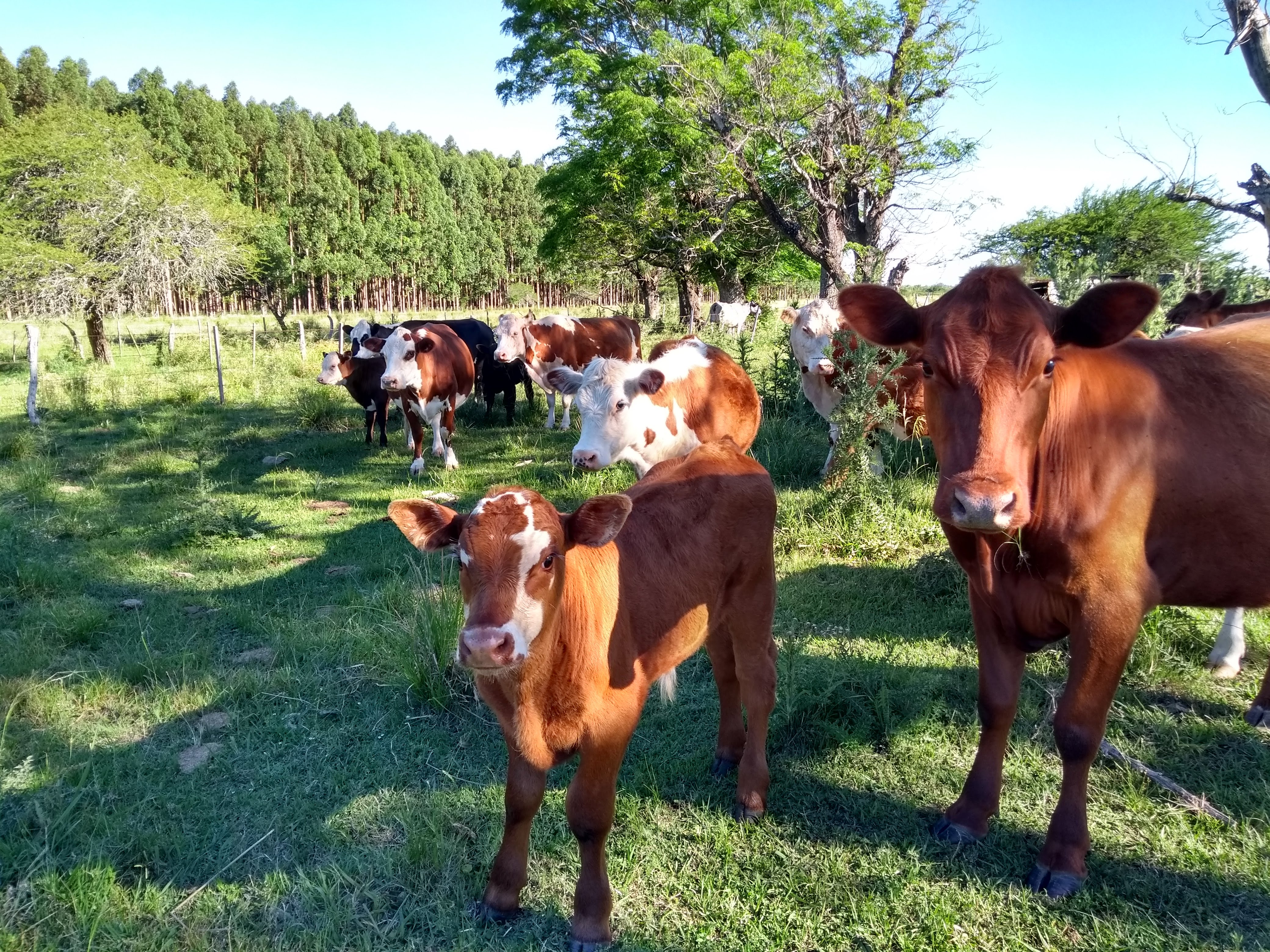 A group of Angus cattle (Aberdeen Angus), on a farm outside Villa Elisa, Province of Entre Ríos.